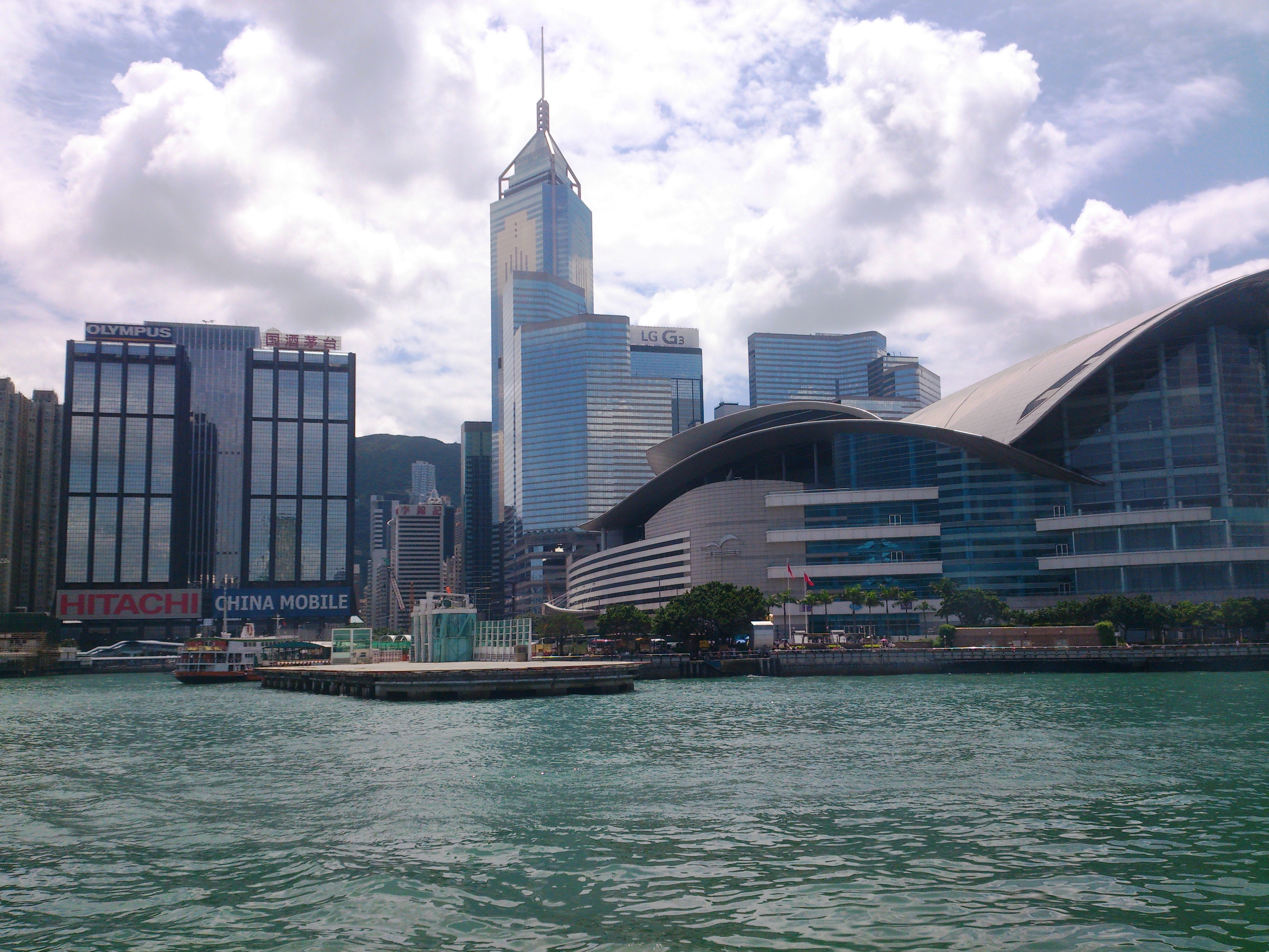 Helipad near HKCEC